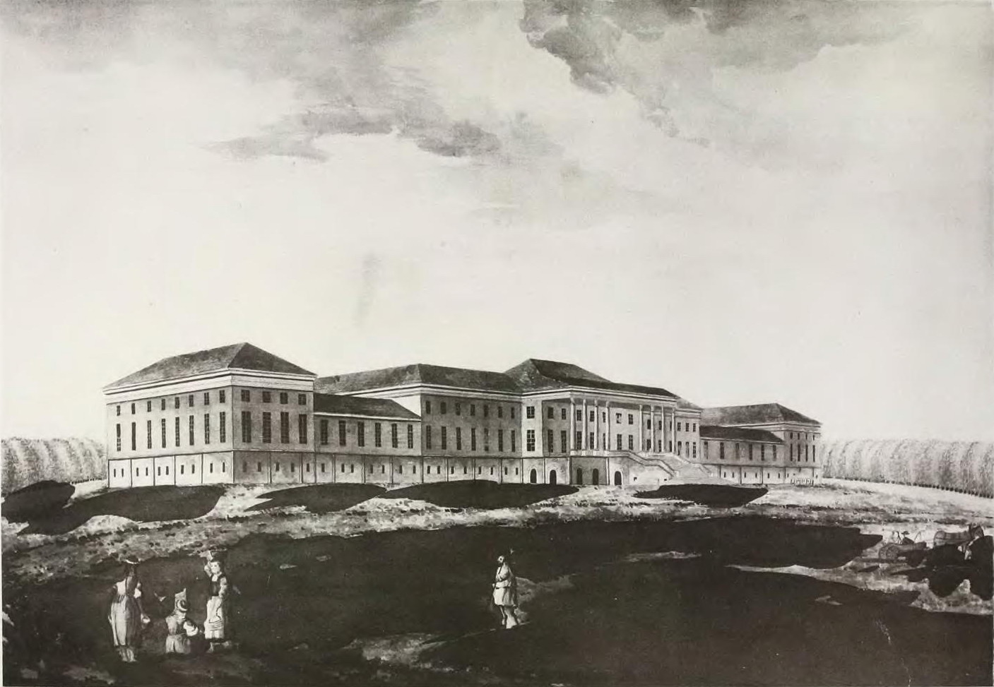 The Old Wooden Palace on Sparrow Hills. From: Nikolay Naidenov. Moscow. Pictures of landscapes, churches, buildings and other structures. Part II.